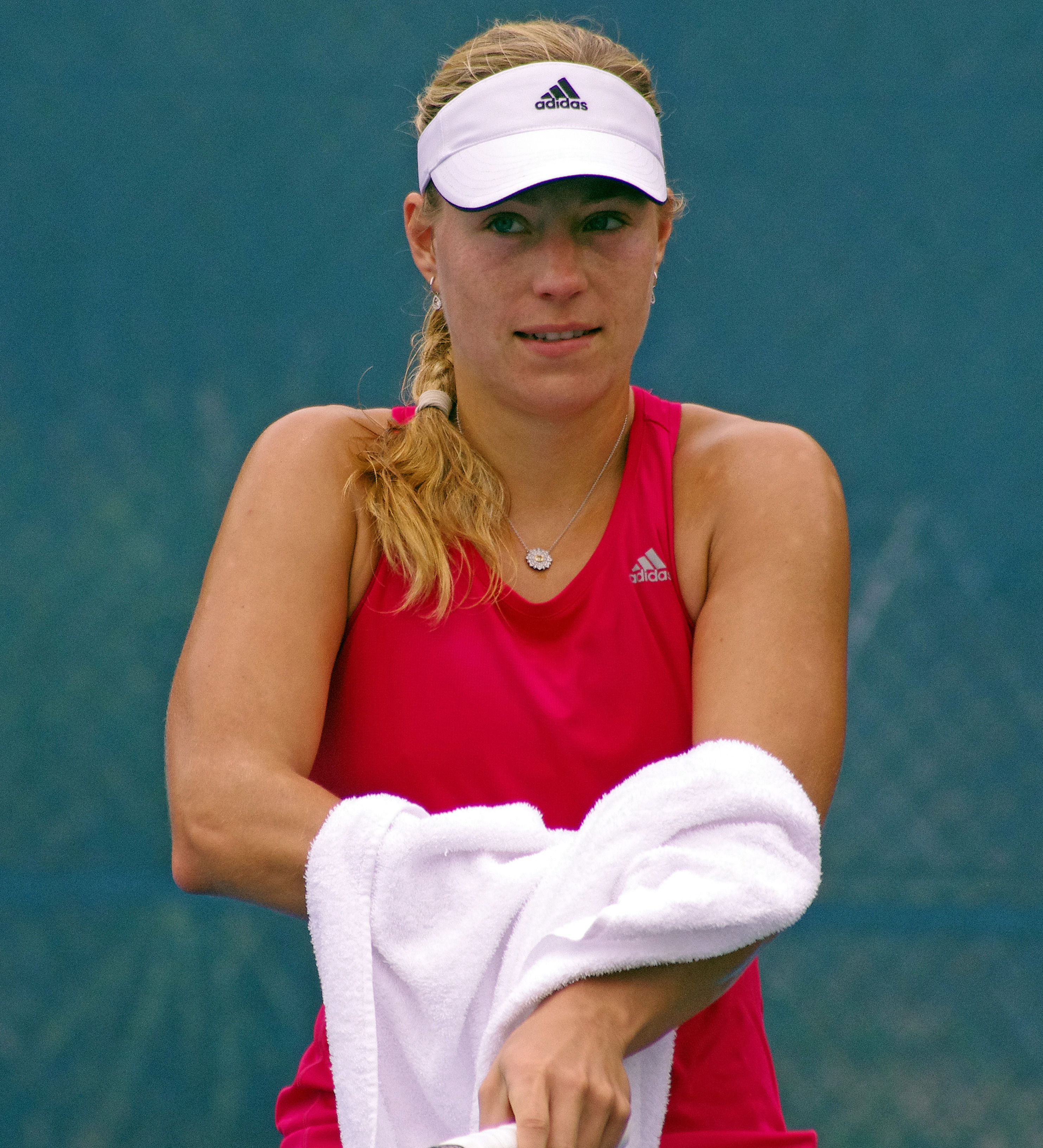 Angelique Kerber, training for the 2015 Apia International Sydney